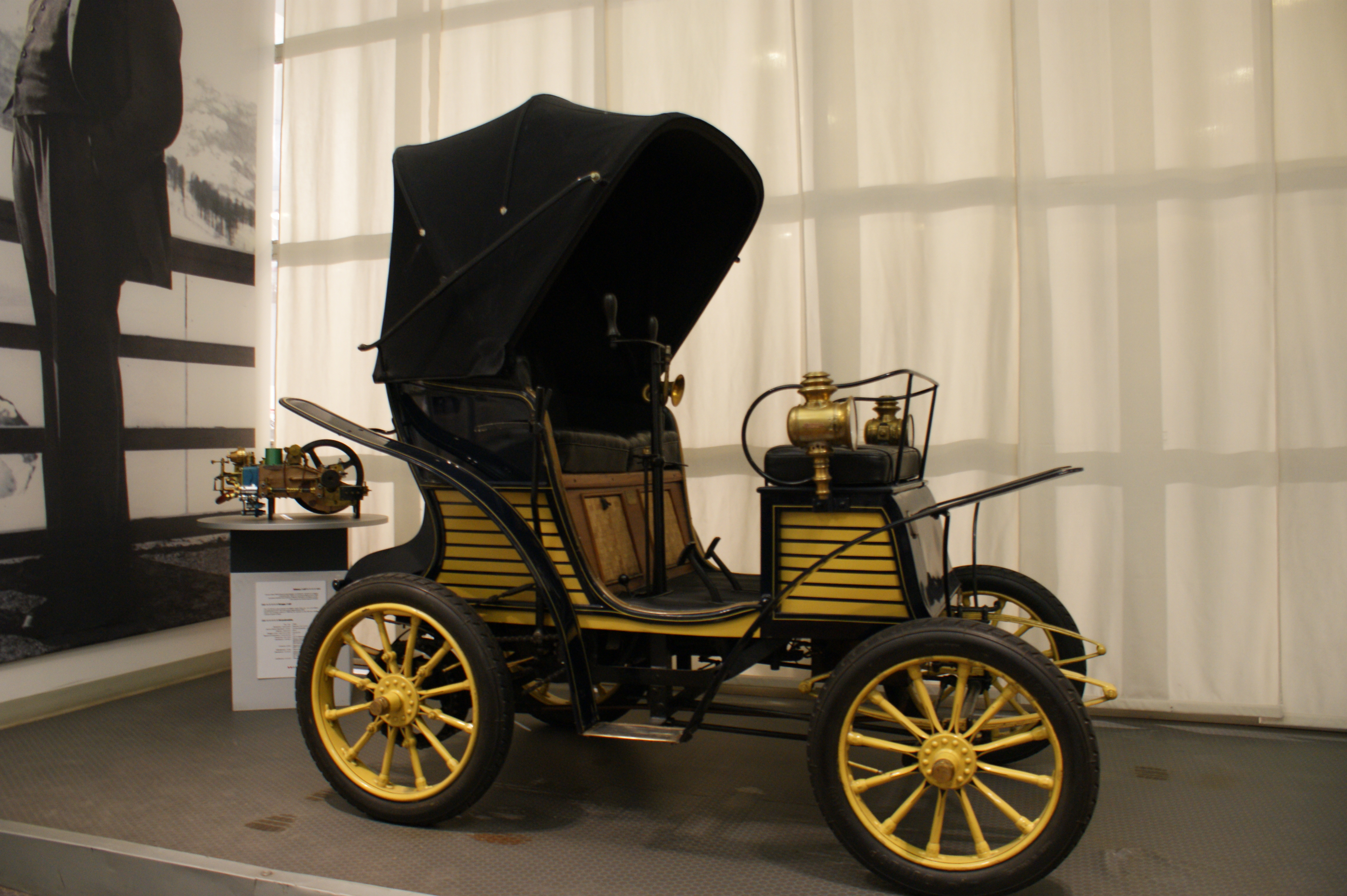 Fiat 3 1/2 Hp Centro Storico Fiat, Torino